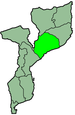 Map of Zambezia Province, Mozambique